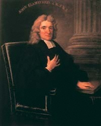 Portrait of John Flamsteed, astronomer - born Denby Derbyshire. Painting by Thomas Gibson. Original with UK Royal Society